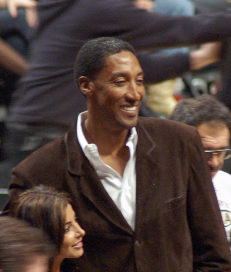 Scottie Pippen and his wife at a Bulls game.